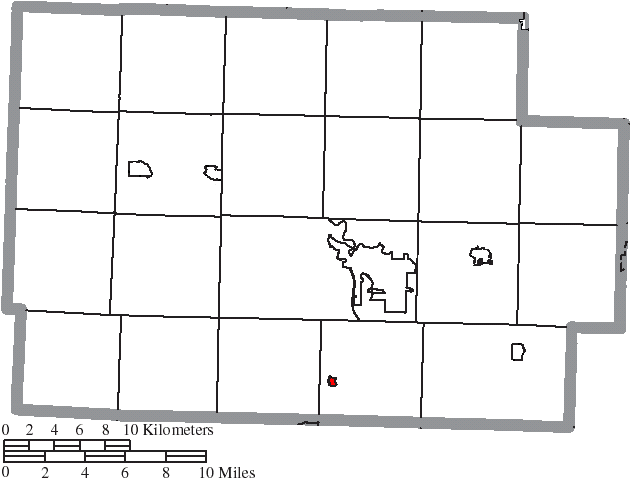 Map of the municipal and township boundaries of Coshocton County, Ohio, United States, as of the 2000 census, with the location of the village of Conesville highlighted. Township borders are shown only in unincorporated areas in order to differentiate incorporated and unincorporated areas more clearly.